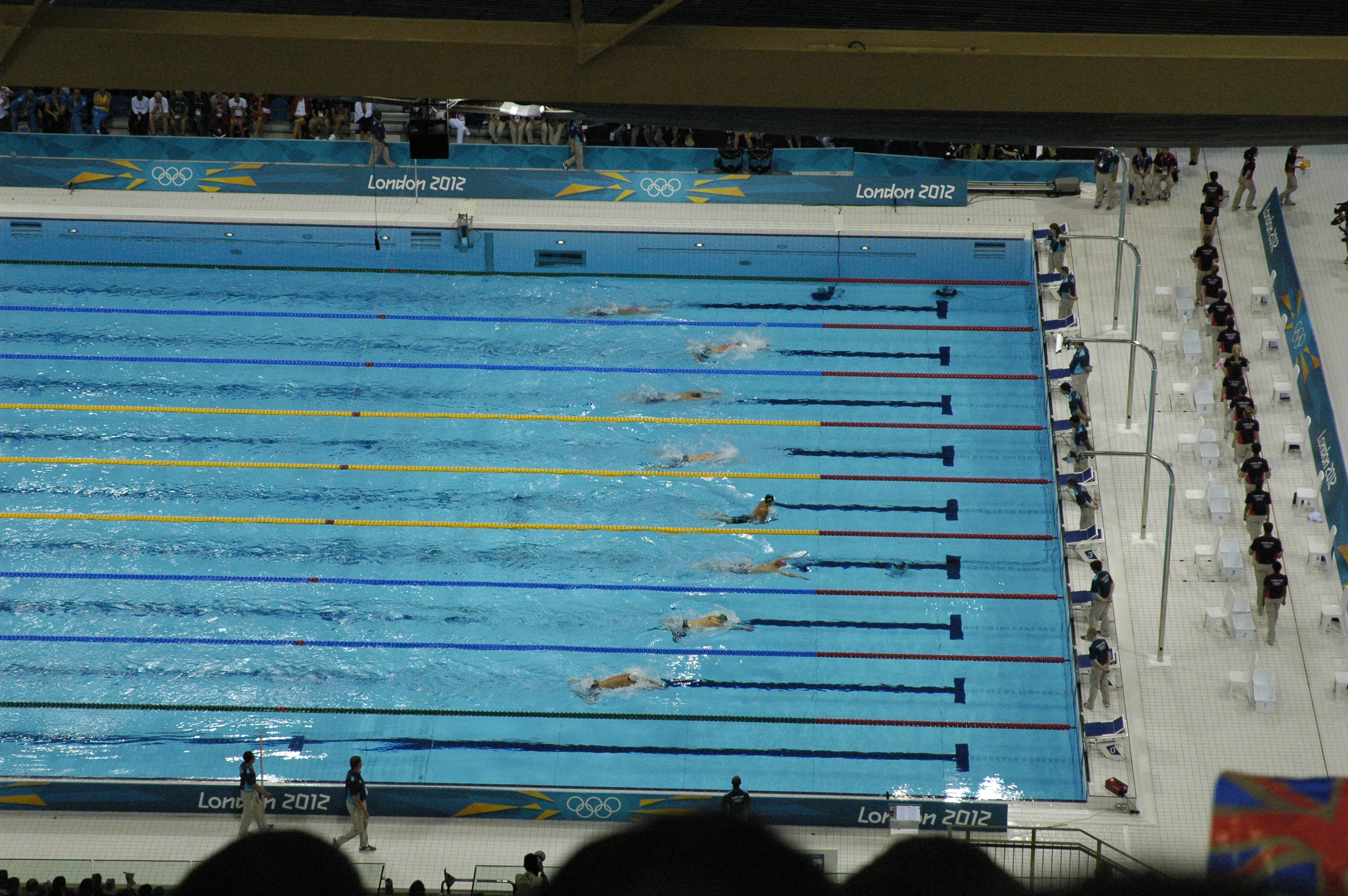 Swimming at the 2012 Summer Olympics, Men's 200m Breaststroke heat 5